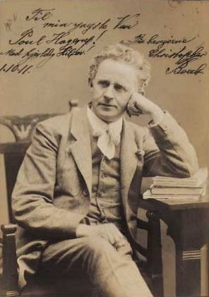 Christopher Nyholm Boeck (1850-1932), Danish writer